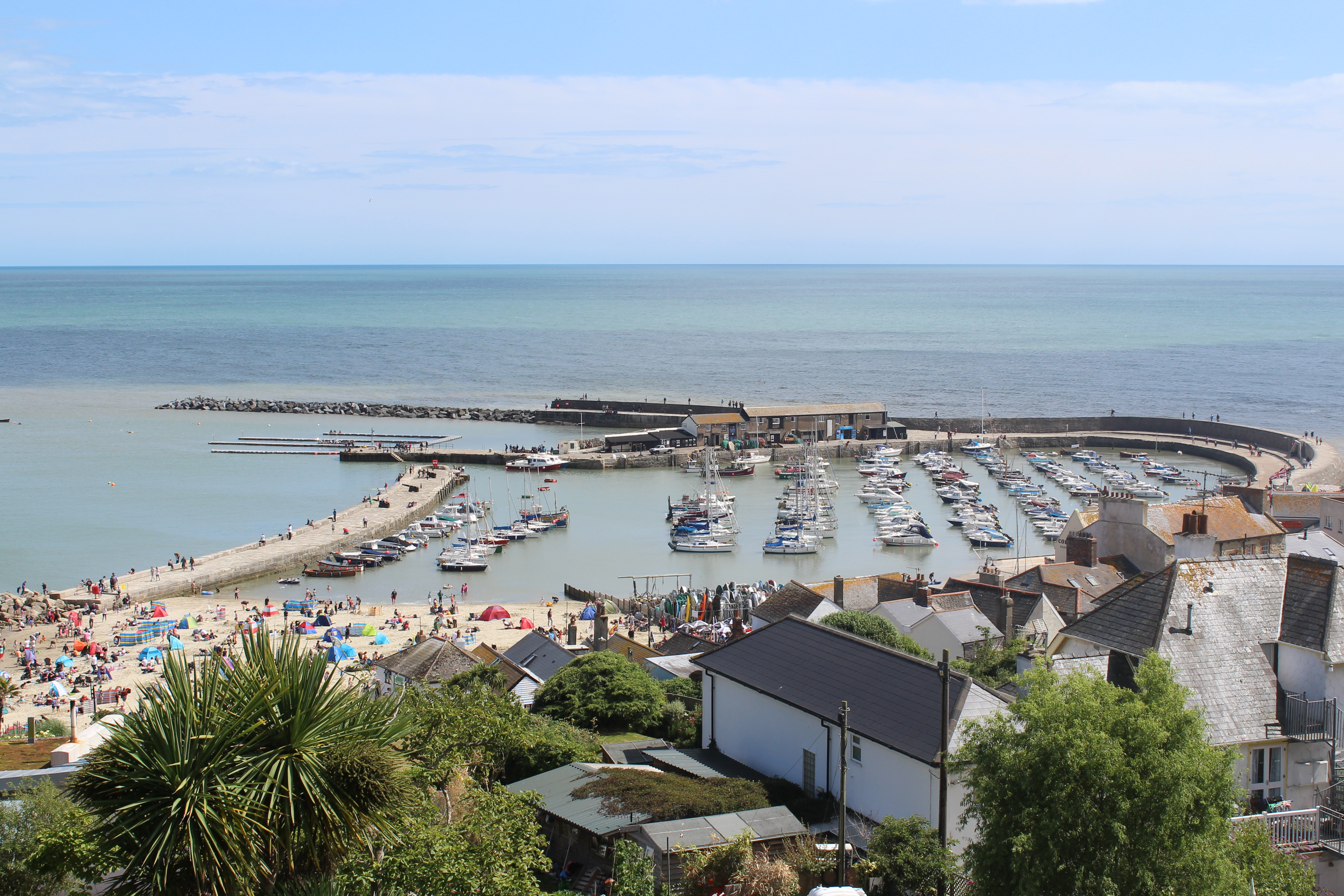 Lyme Regis harbour, taken from Holmbush carpark. The Cobb dates from before 1313, the Vicotria Pier from between 1842 and 1852 and the North Wall from 1849. The Cobb, piers and North Wall are Grade 1 listed buildings. In real life, the Duke of Monmouth landed here in 1685 to raise the Monmouth Rebellion. In fiction, the fall of Jane Austen's character Louisa on the Cobb (marked on the image) played a central role in her novel Persuasion.